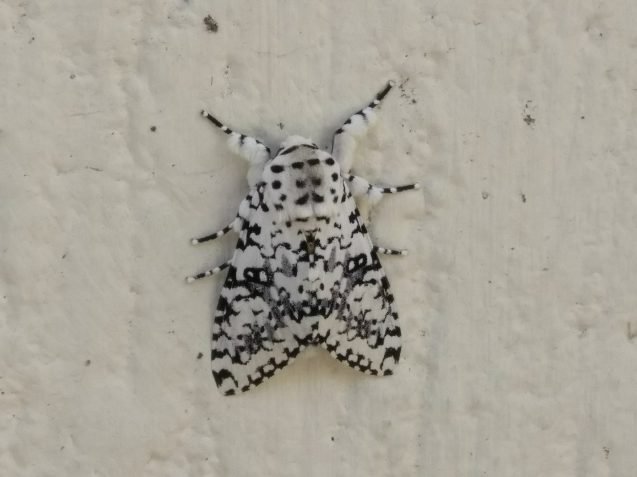 Lichnoptera decora. Species of insect.